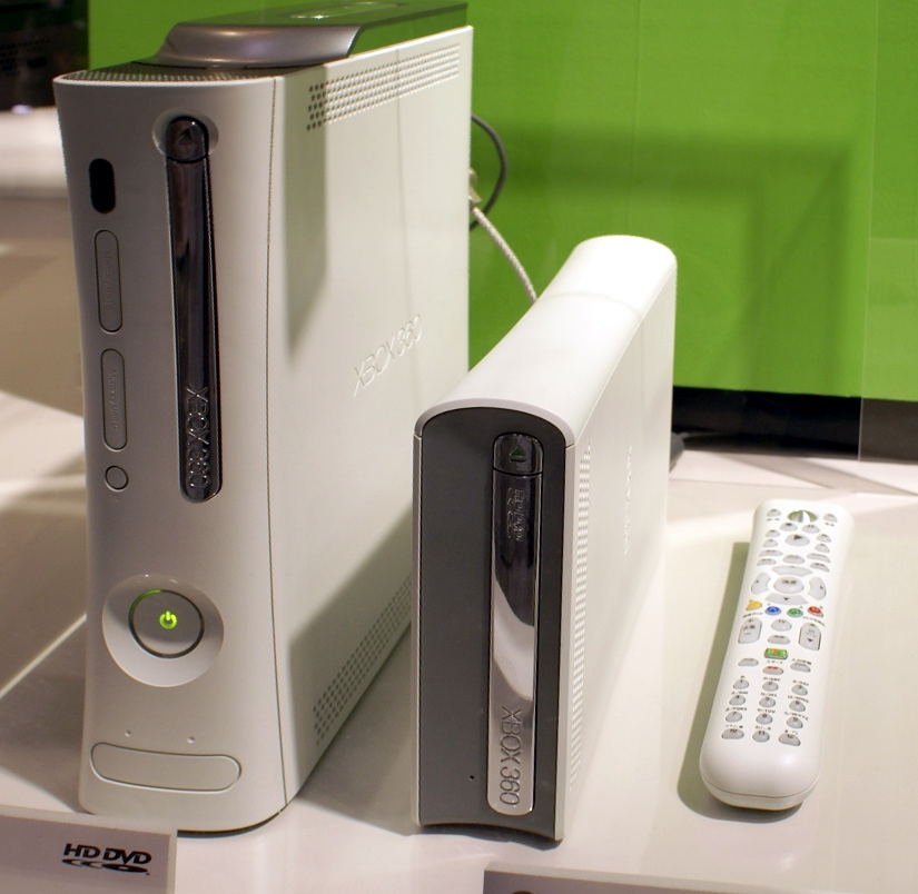 Xbox 360 with HD-DVD Player and Universal Media Remote at CEATEC 2006